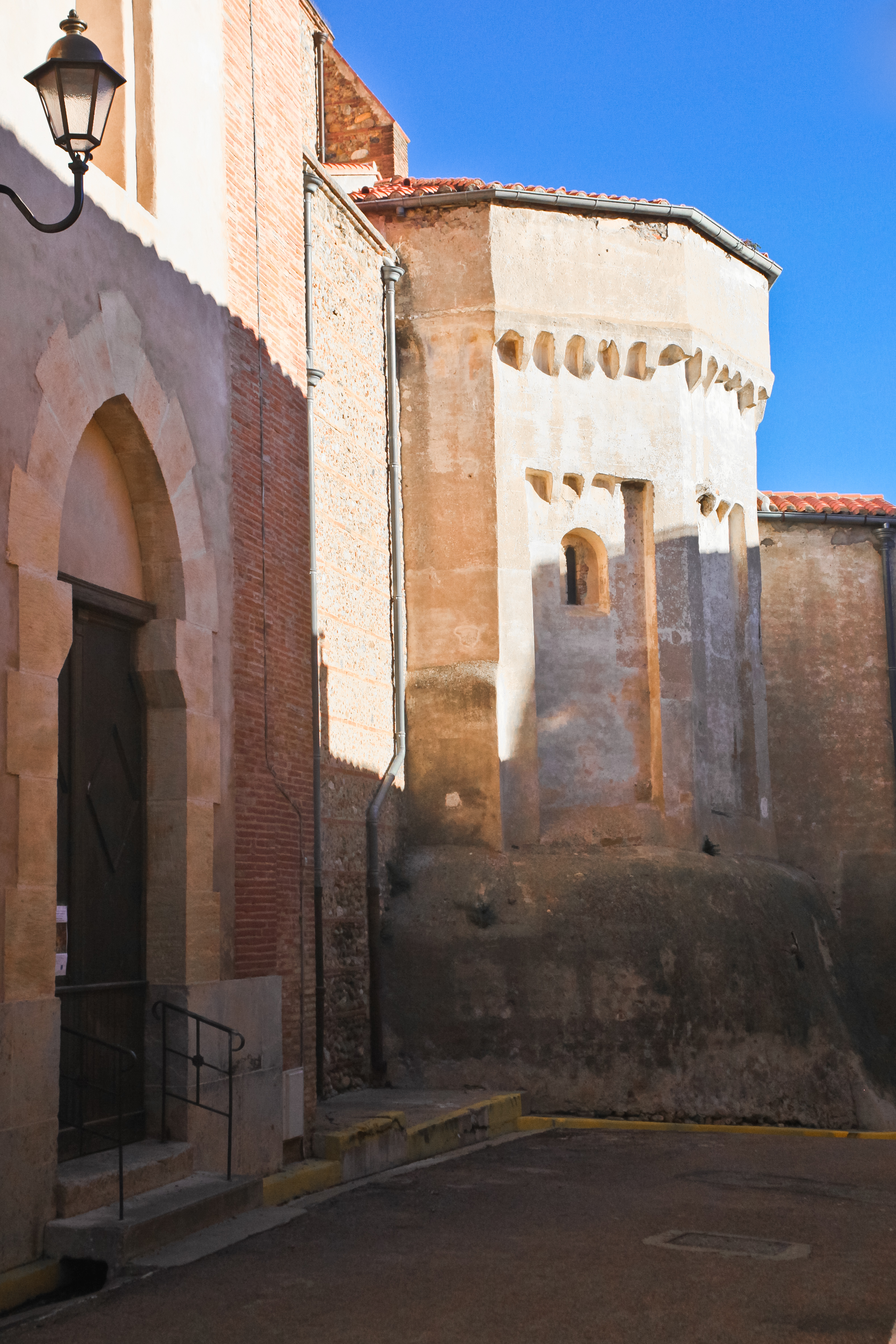 The entrance door and the apse of St-André's church, St-Feliu d'avall, France .